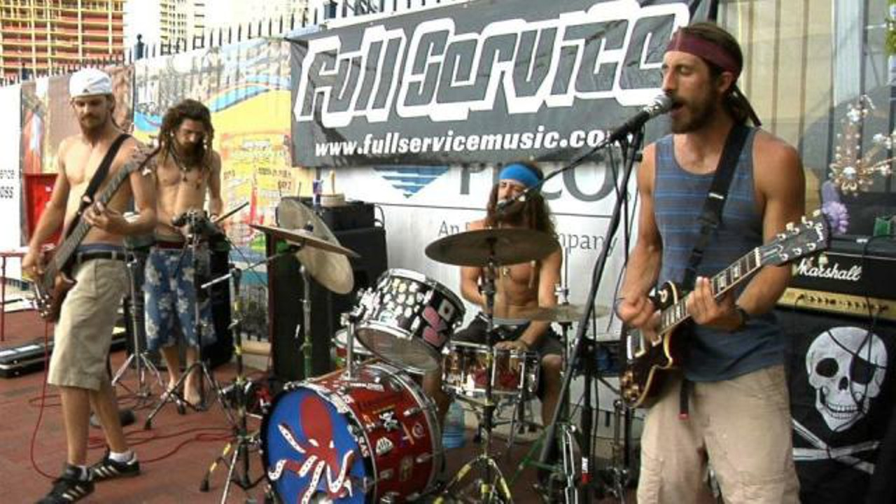 Full Service during a "takeover" performance on a sidewalk.